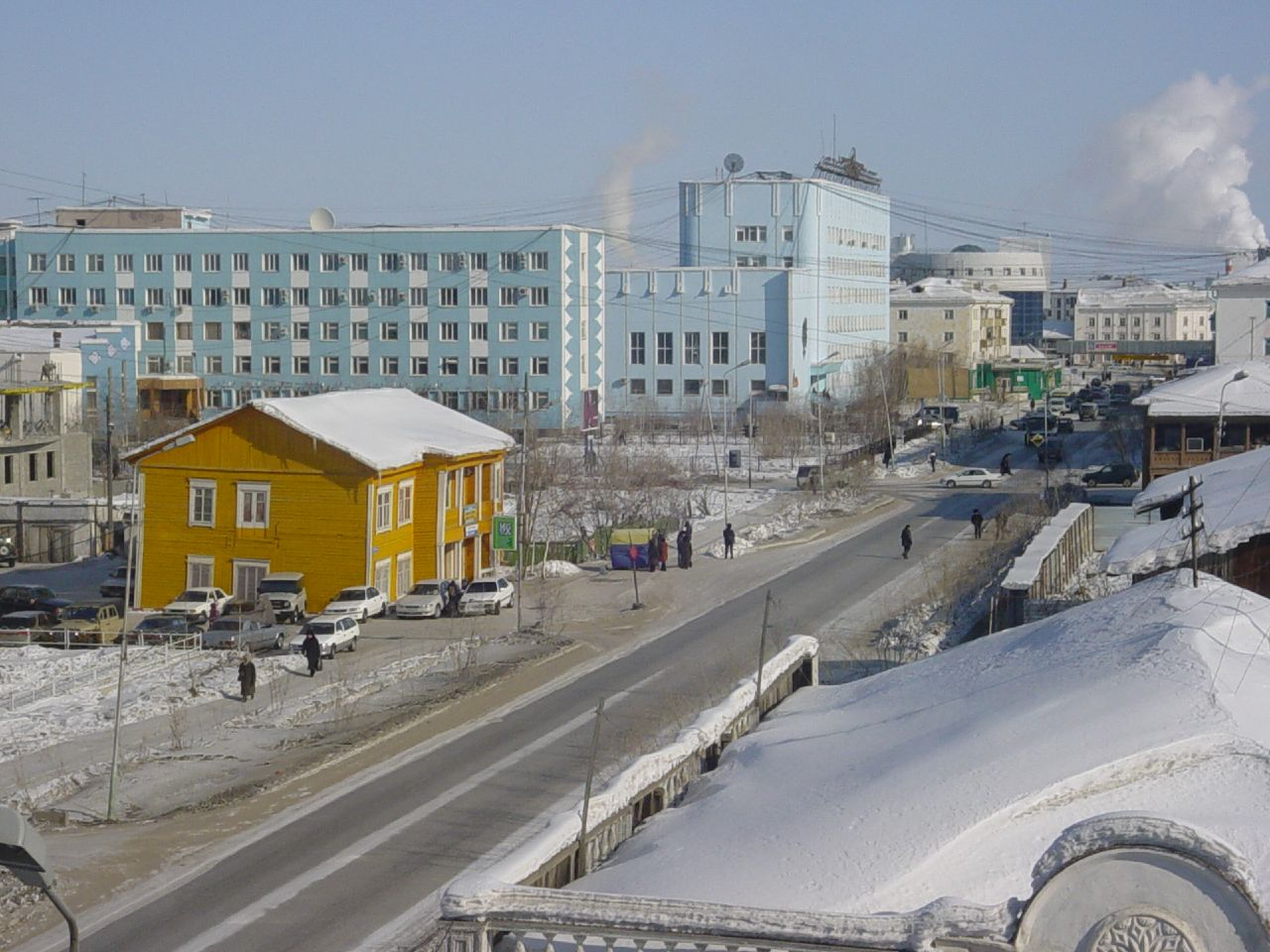 Yakutsk – some buildings.